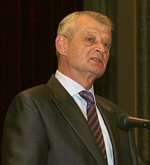 Mayor of Bucharest, Sorin Oprescu, in 2009